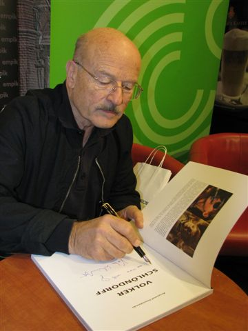 Volker Schlöndorff